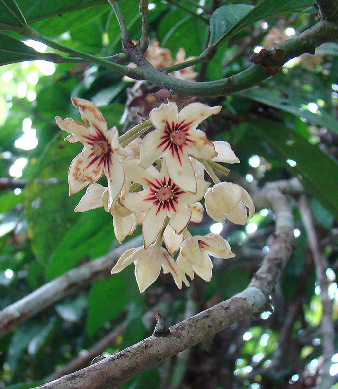 Native to Africa where the nut is a widely used food and stimulant. Planted in the Neotropics as Abata Cola. (Now absent from most Cola drinks). Photo from Panama Canal Zone. In context at